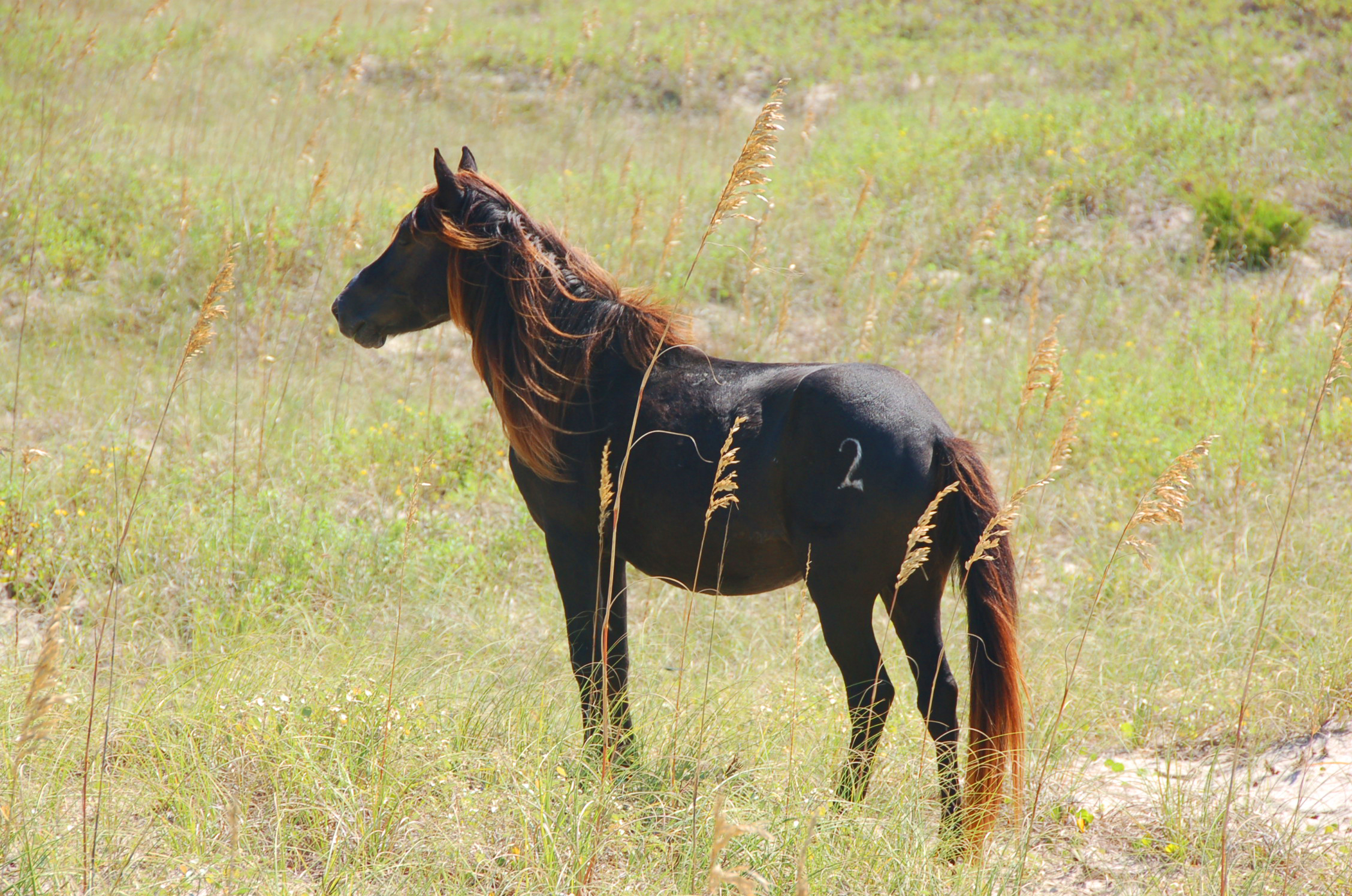 A branded horse on Shackleford Banks (NC).